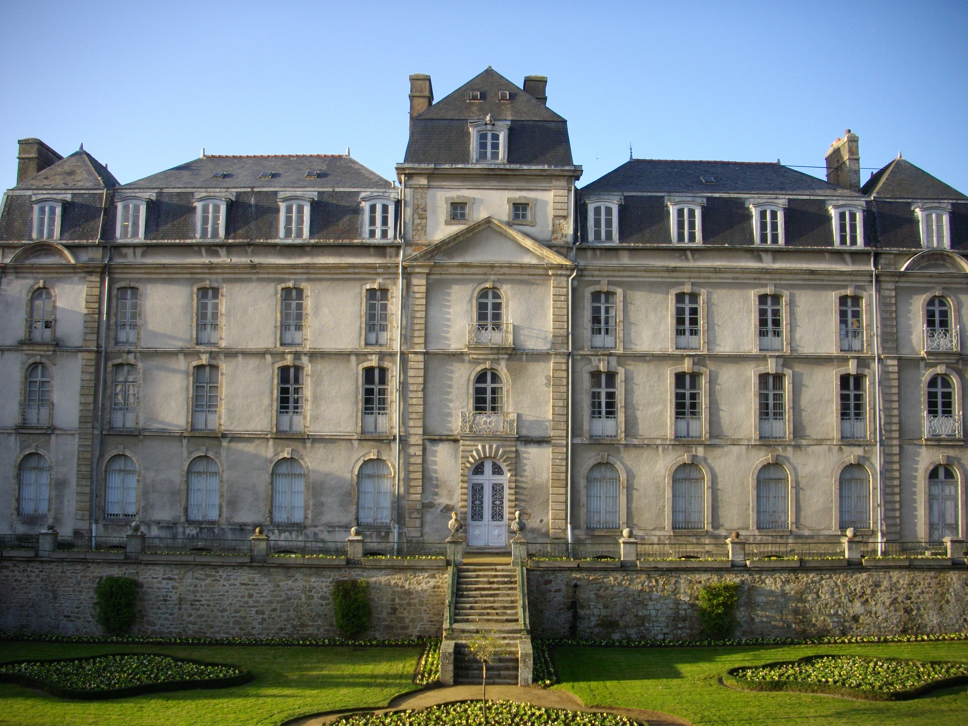 Château de l'Hermine, Vannes (France)